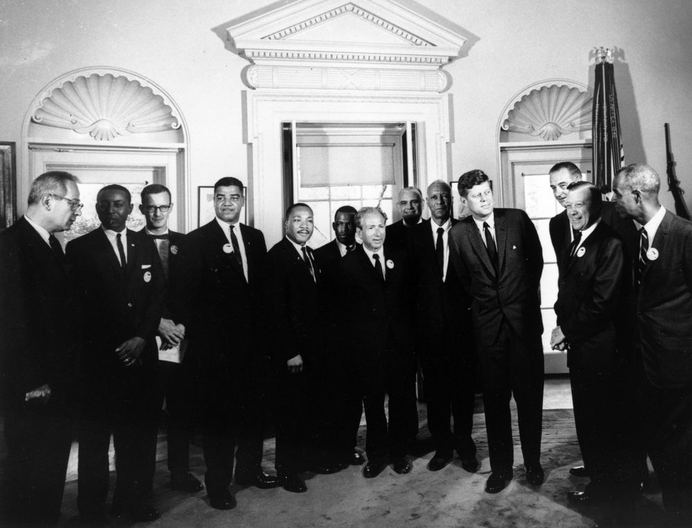 President John F. Kennedy and Vice President Lyndon B. Johnson meet with organizers of "The March on Washington for Jobs and Freedom” in the Oval Office, White House, Washington, D.C. Left to right: Secretary of Labor, Willard Wirtz; National Chairman of Congress of Racial Equality (CORE), Floyd McKissick; Executive Director of the National Catholic Conference for Interracial Justice, Mathew Ahmann; President of the National Urban League, Whitney M. Young, Jr.; President of the Southern Christian Leadership Conference (SCLC), Dr. Martin Luther King, Jr.; representative for the Student Nonviolent Coordinating Committee (SNCC), John Lewis; President of the American Jewish Congress, Rabbi Joachim Prinz; President of the National Council of the Churches of Christ in the USA (NCC), Reverend Eugene Carson Blake; President of the Negro American Labor Council (NALC), A. Philip Randolph; President Kennedy; Vice President Johnson; President of United Auto Workers (UAW), Walter P. Reuther; Executive Secretary of the National Association for the Advancement of Colored People (NAACP), Roy Wilkins.